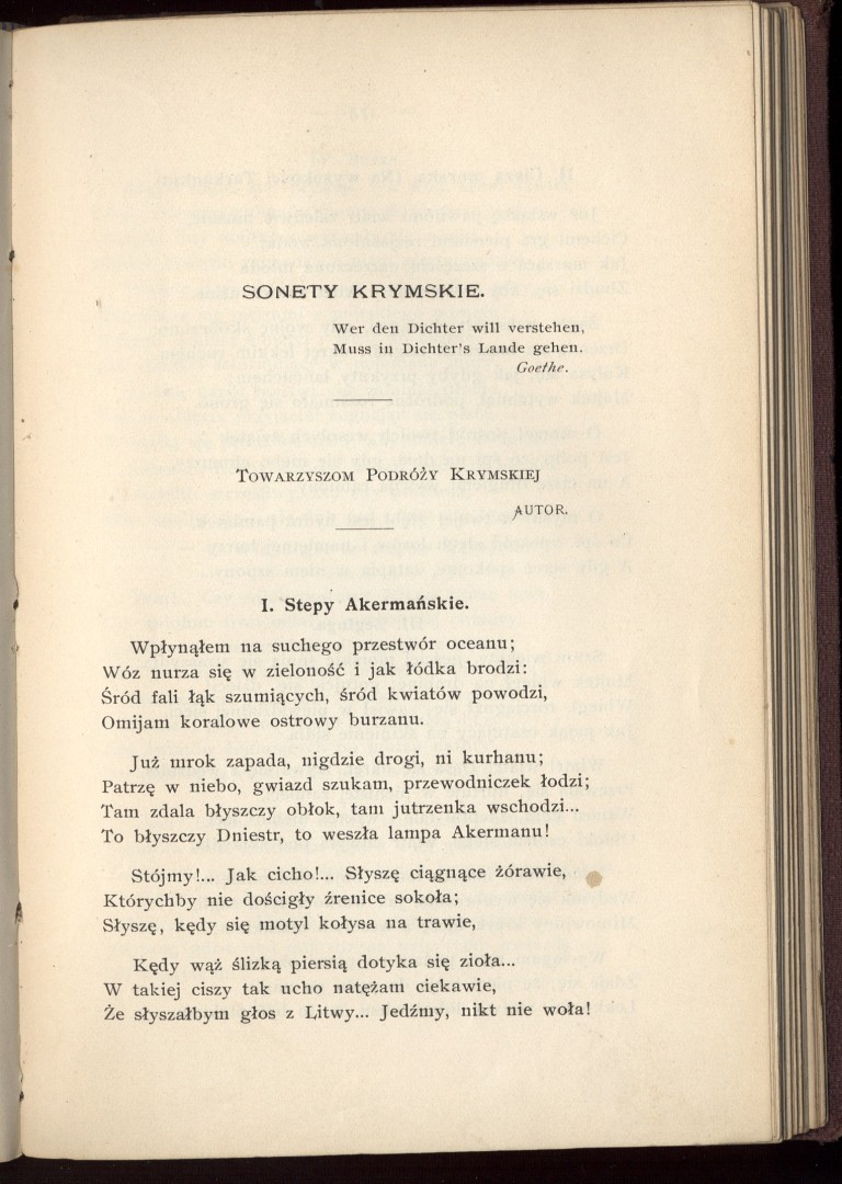 Poems by Adam Mickiewicz. V. 1. - Kraków; 1899; Adam Mickiewicz (1798-1855)